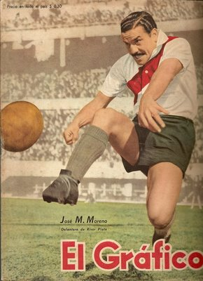 Argentine footballer, José Manuel "Charro" Moreno, during his tenure on River Plate.